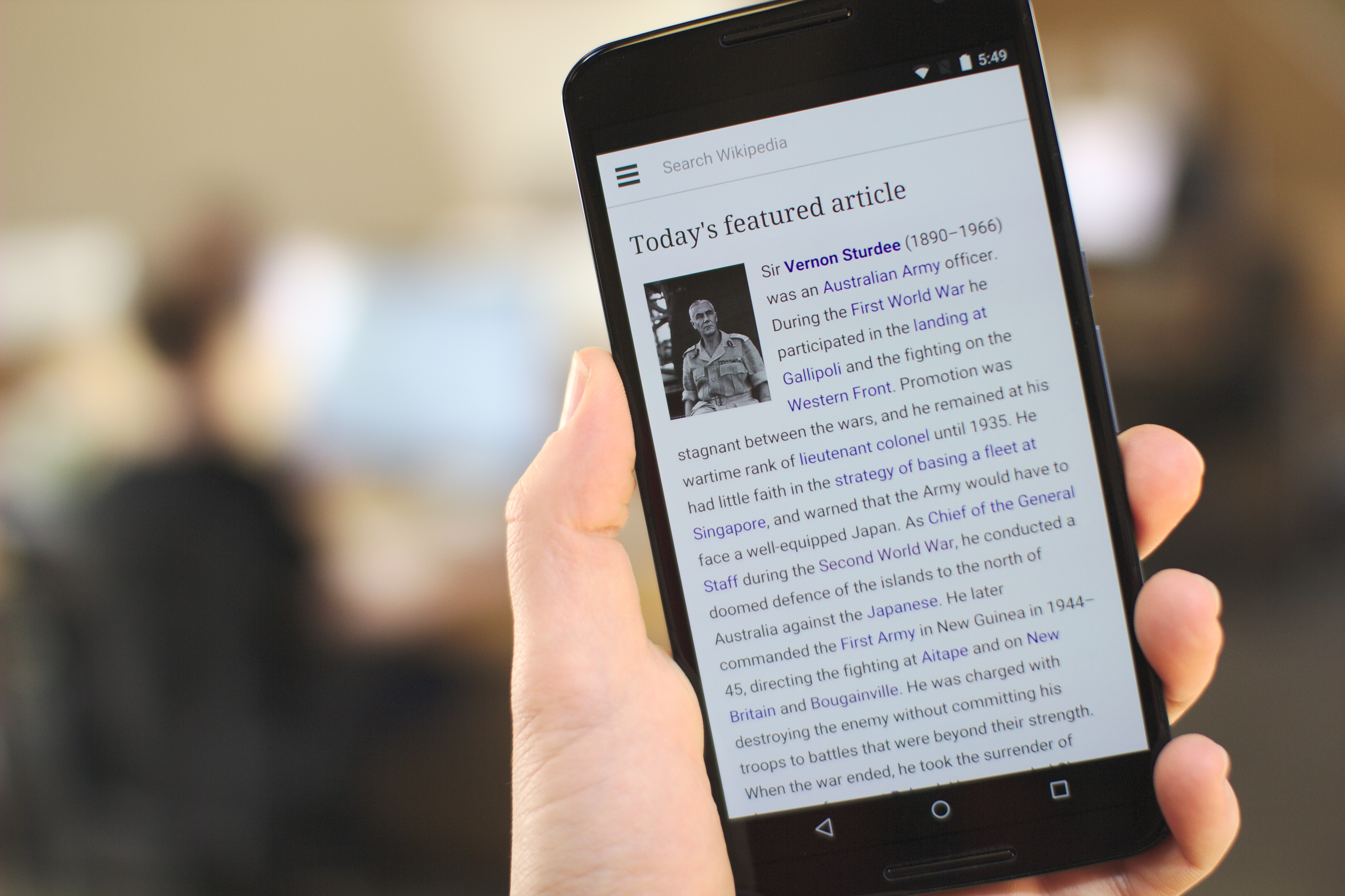 A hand holding a Nexus 6 with the Wikipedia mobile homepage displayed, in an office setting